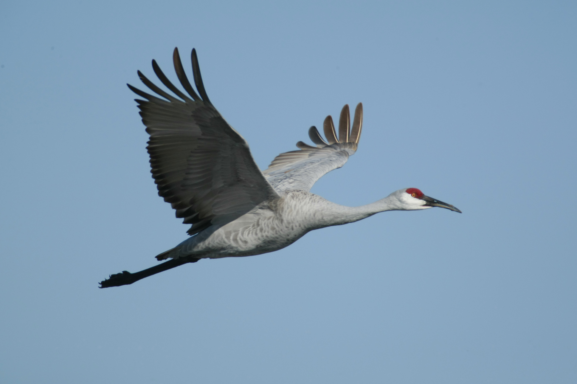 A Sandhill Crane flying at Sacramento River National Wildlife Refuge, Dayton, California, USA.